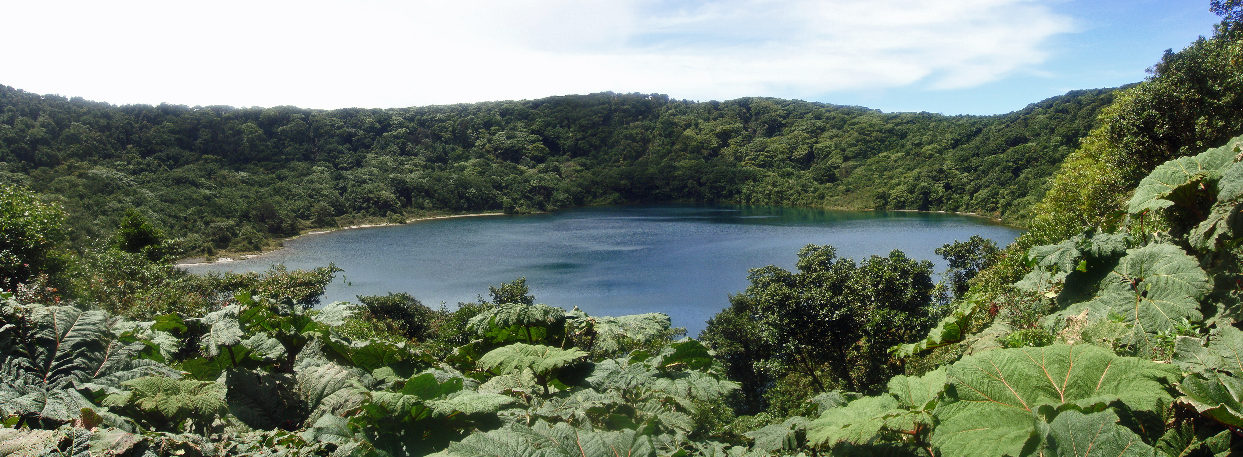 Panoramic view of Botos Lake (inactive volcano crater) at the Poas National Park, Alajuela, Costa Rica